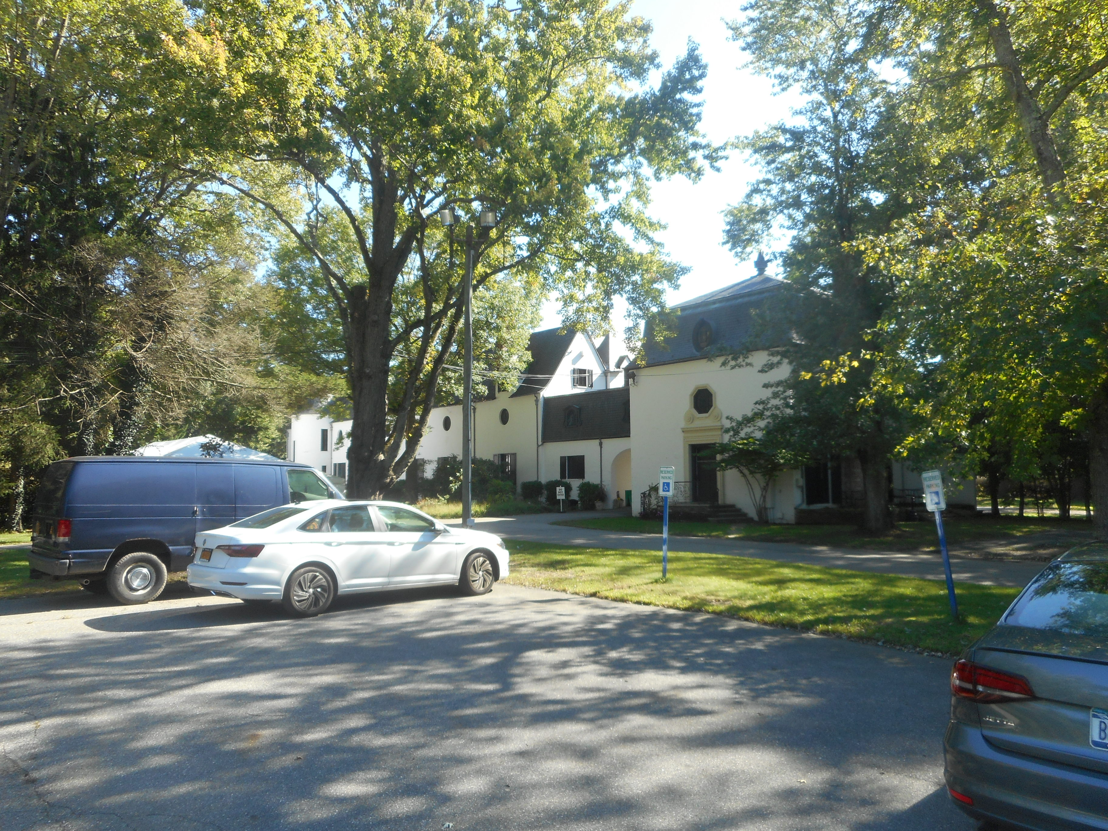 One of two fledgling attempts to capture the Chelsea Mansion, a.k.a., the Benjamin Moore Estate within the northern edges of the Muttontown Preserve off of the south side of New York State Route 25A in Muttontown, New York. Listed on the National Register of Historic Places since May 14, 1979.